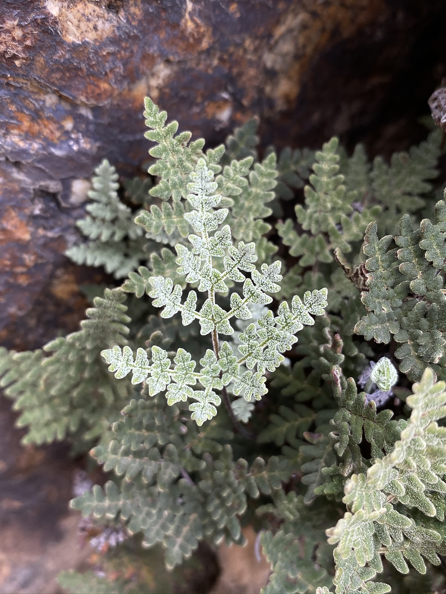 Notholaena californica ssp. californica. Subspecies of fern.